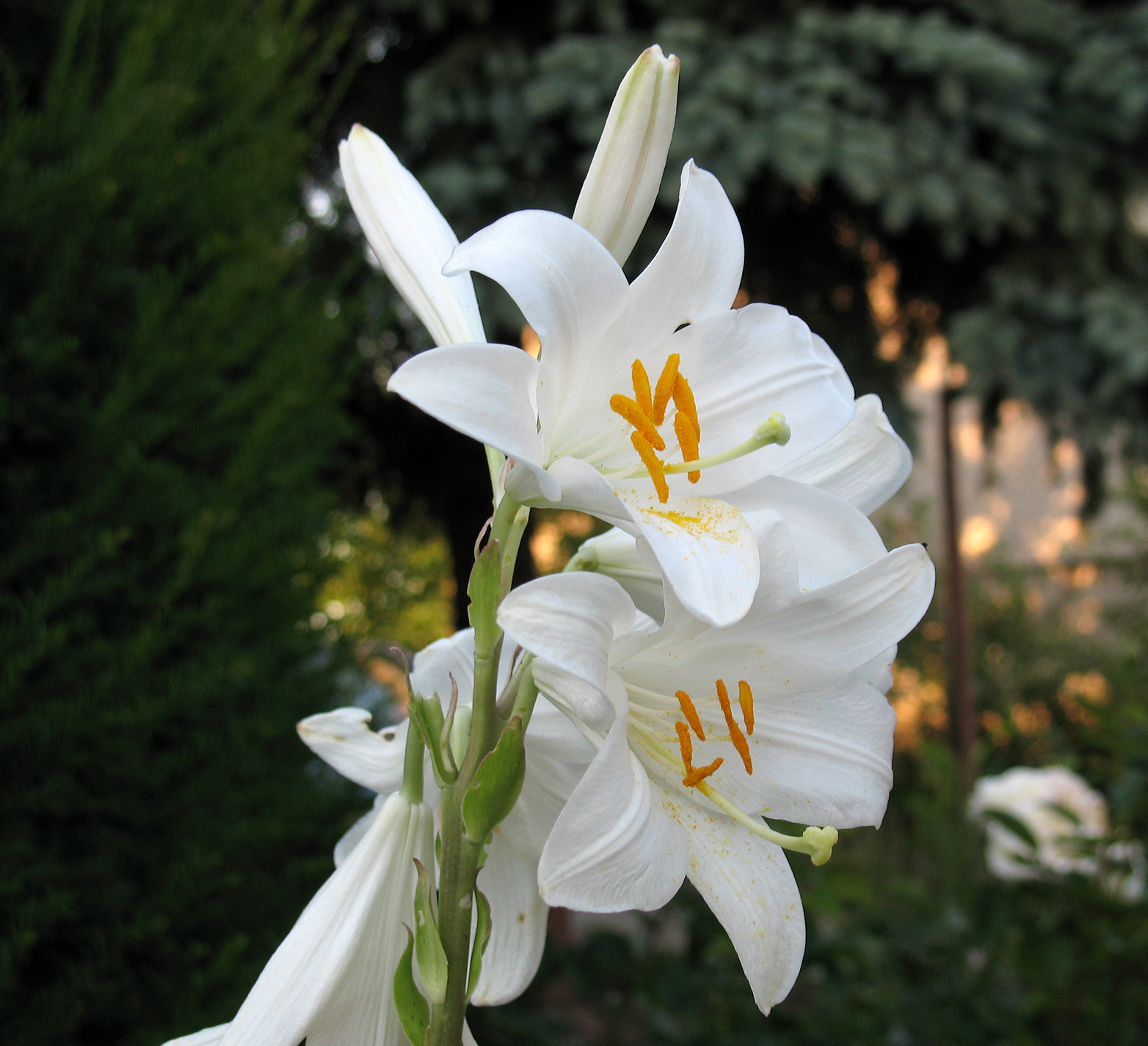 Madonna Lily (Lilium candidum) is a plant in the genus Lilium, one of the true lilies. It is native to the Balkans and West Asia. It forms bulbs at ground level, and unlike other lilies, has a basal rosette of leaves through the winter, which die back in summer.